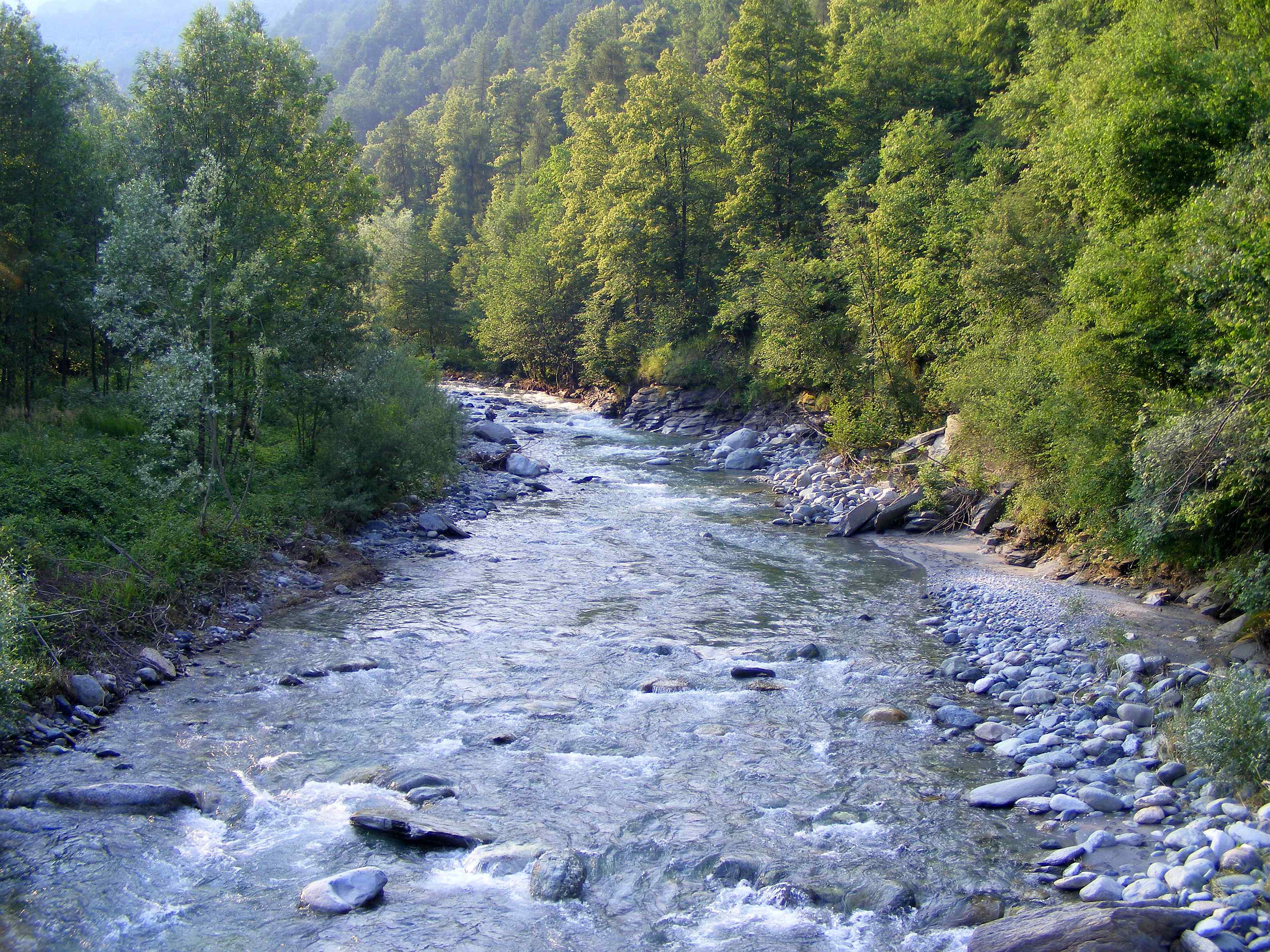 Varaita creek near Melle (CN, Italy)